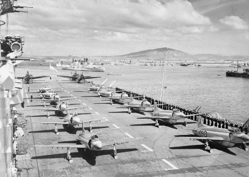 The Royal Navy aircraft carrier HMS Eagle (R05), attached temporarily to the Mediterranean Fleet, entering Gibraltar Harbour following an exercise in the Western Mediterranean. Supermarine Attacker FB.2 (800 Naval Air Squadron), Hawker Sea Hawk F.1 (806 Naval Air Squadron), Douglas Skyraider AEW.1 (A Flight 849 Naval Air Squadron) and Grumman Avenger (815 Naval Air Squadron) aircraft along with non-essential members of the ship's company are on deck to 'dress the ship'.